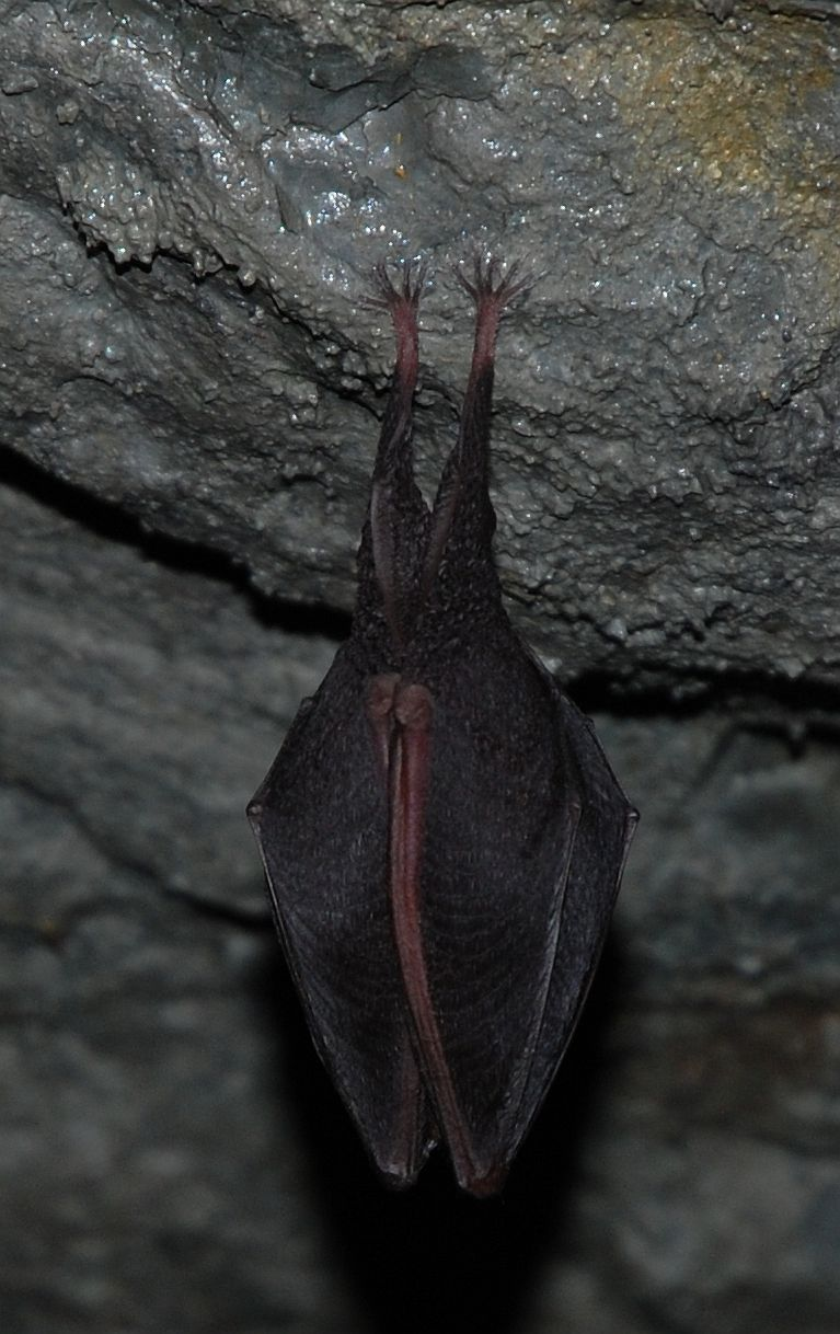 Rhinolophus hipposideros, Near Viechtwang, Austria